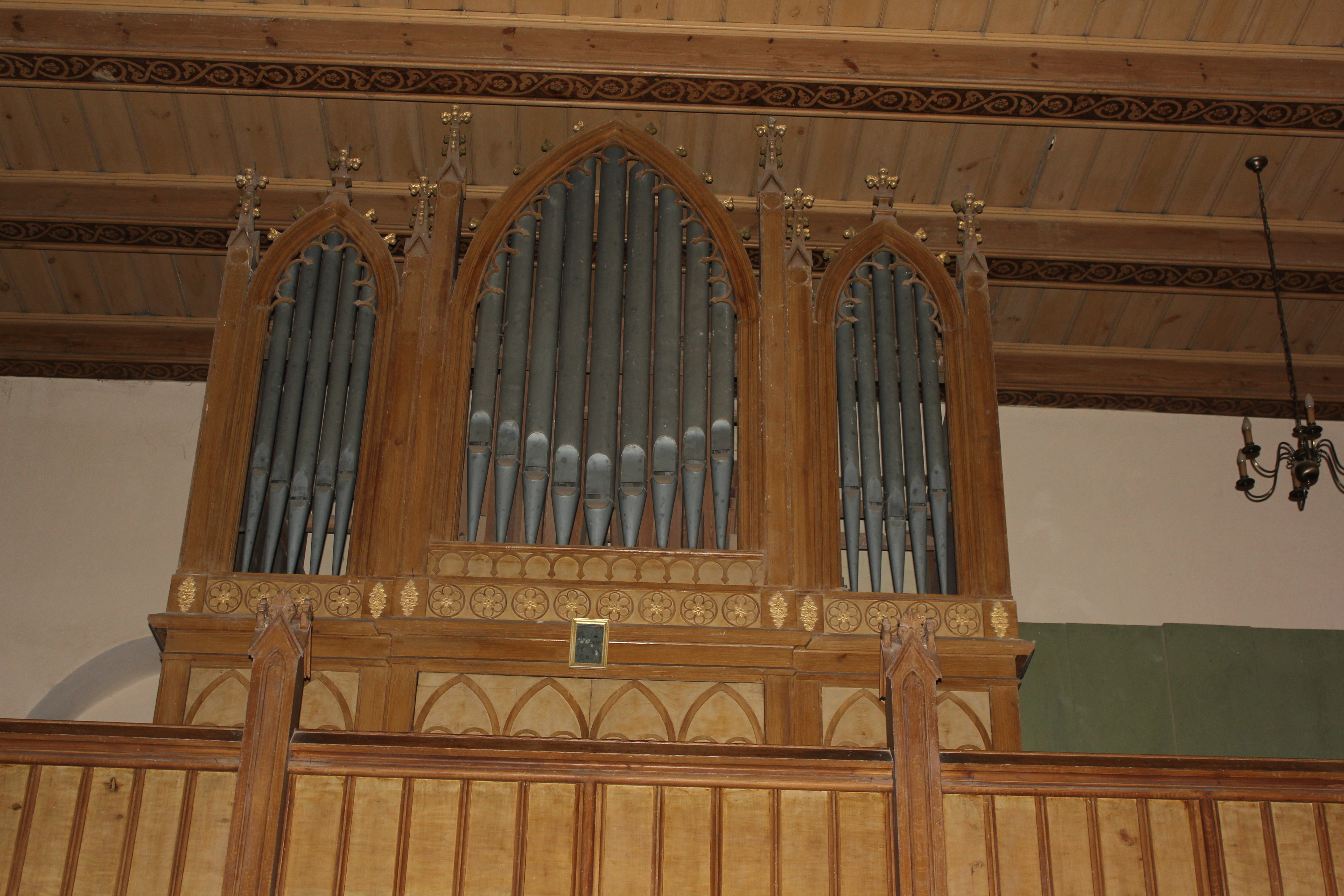 The Organ of the church of Gross Varchow